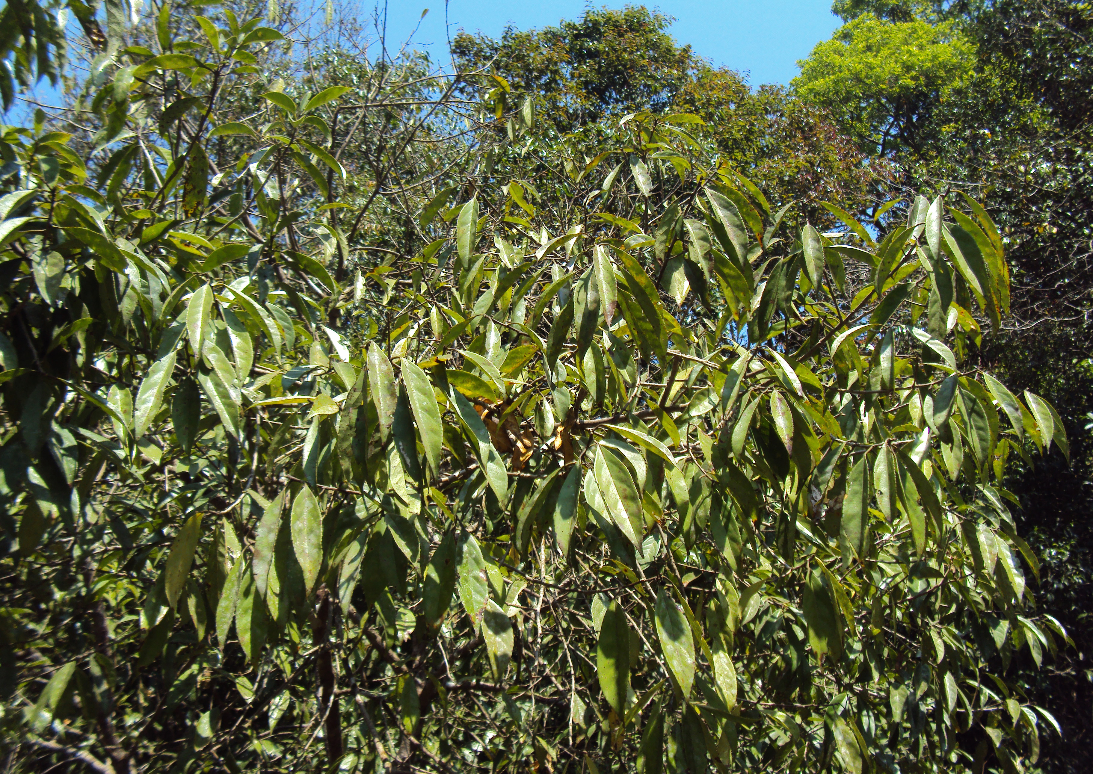 Symplocos cochinchinensis